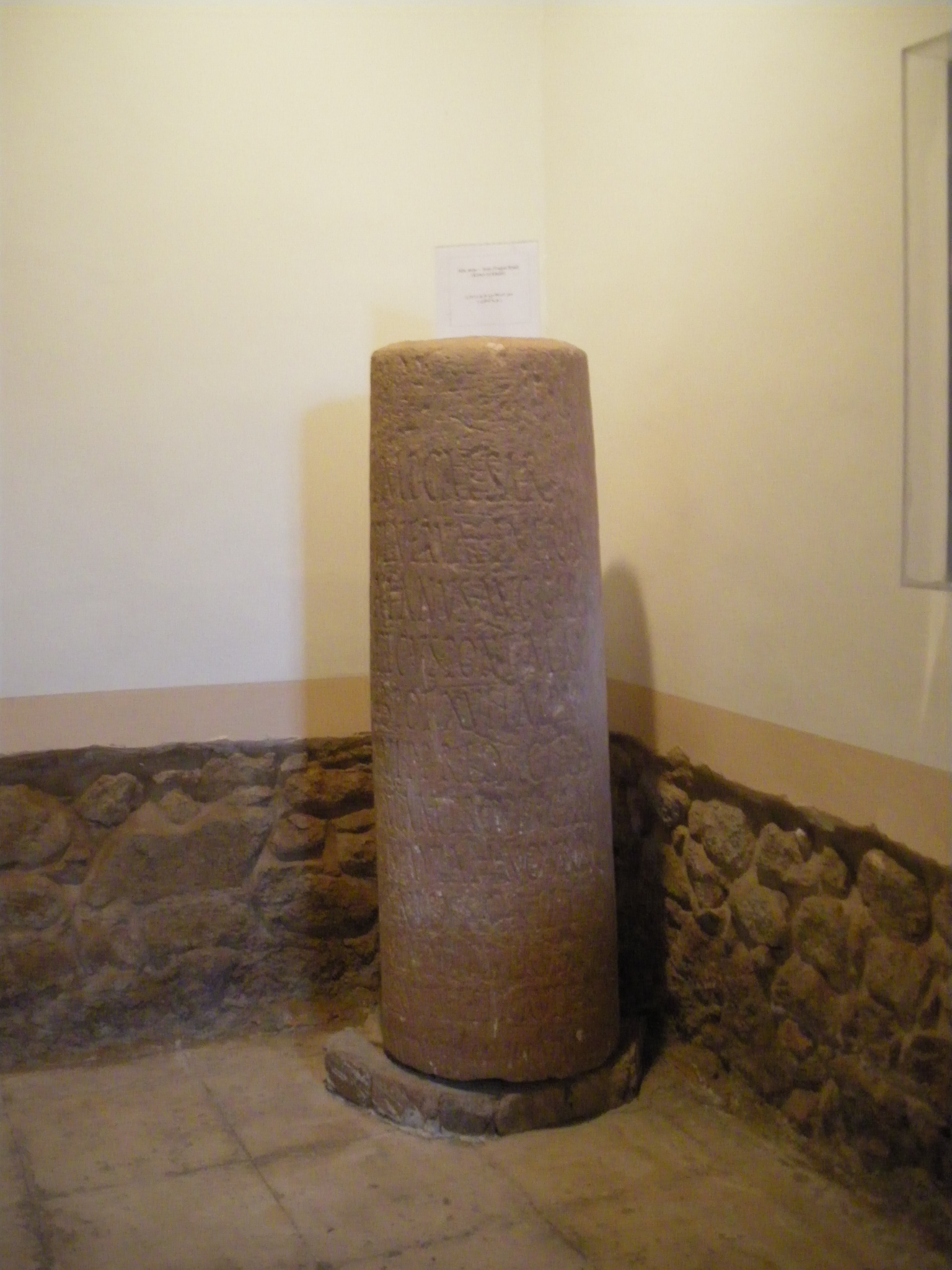 Inside the Aqaba Archeological Museum : the Roman milestone that is the first sign of the Via Nova Traiana